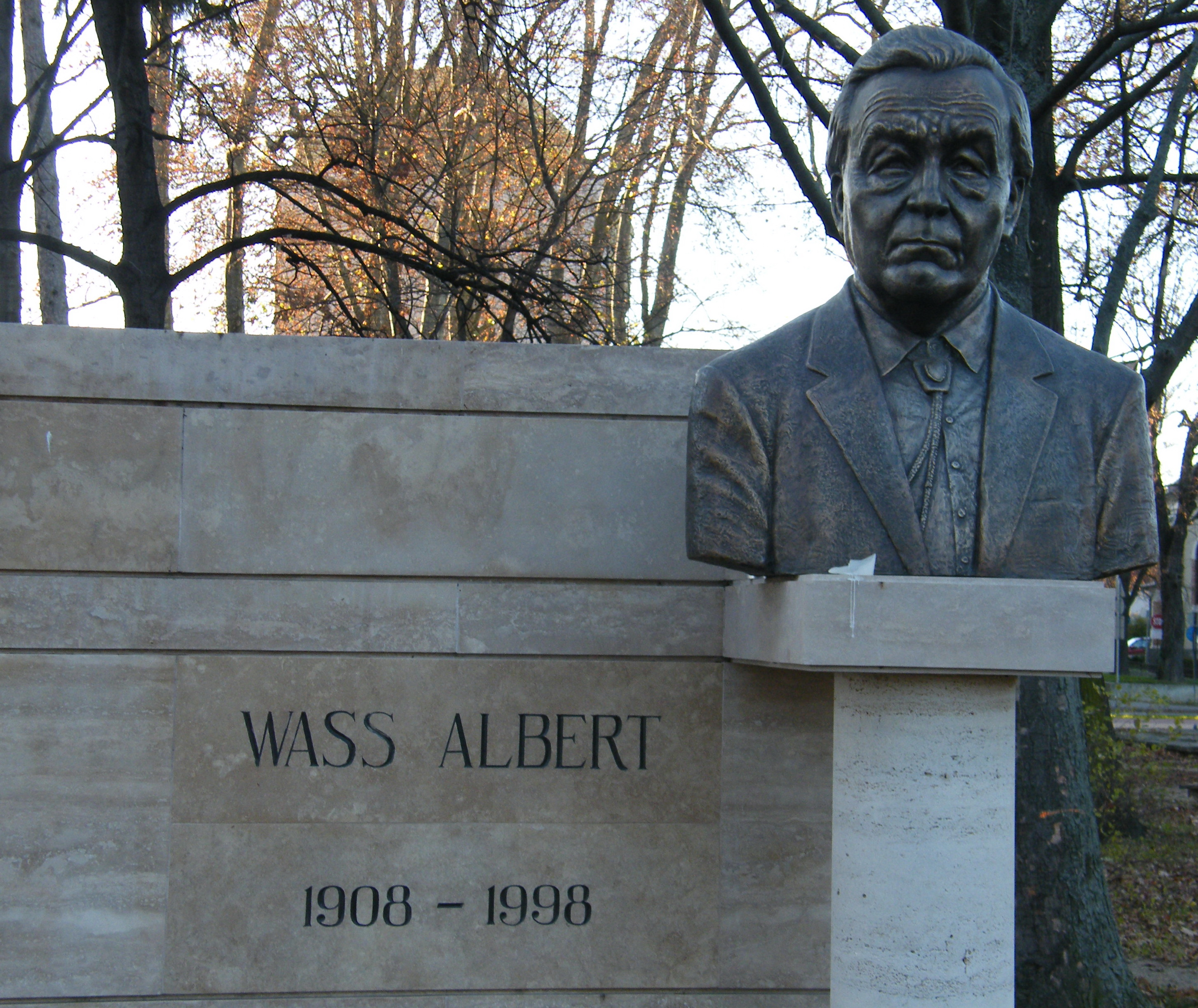 Bust of hungarian writer Albert Wass in Zalaegerszeg. Sculptor: Károly Bálint